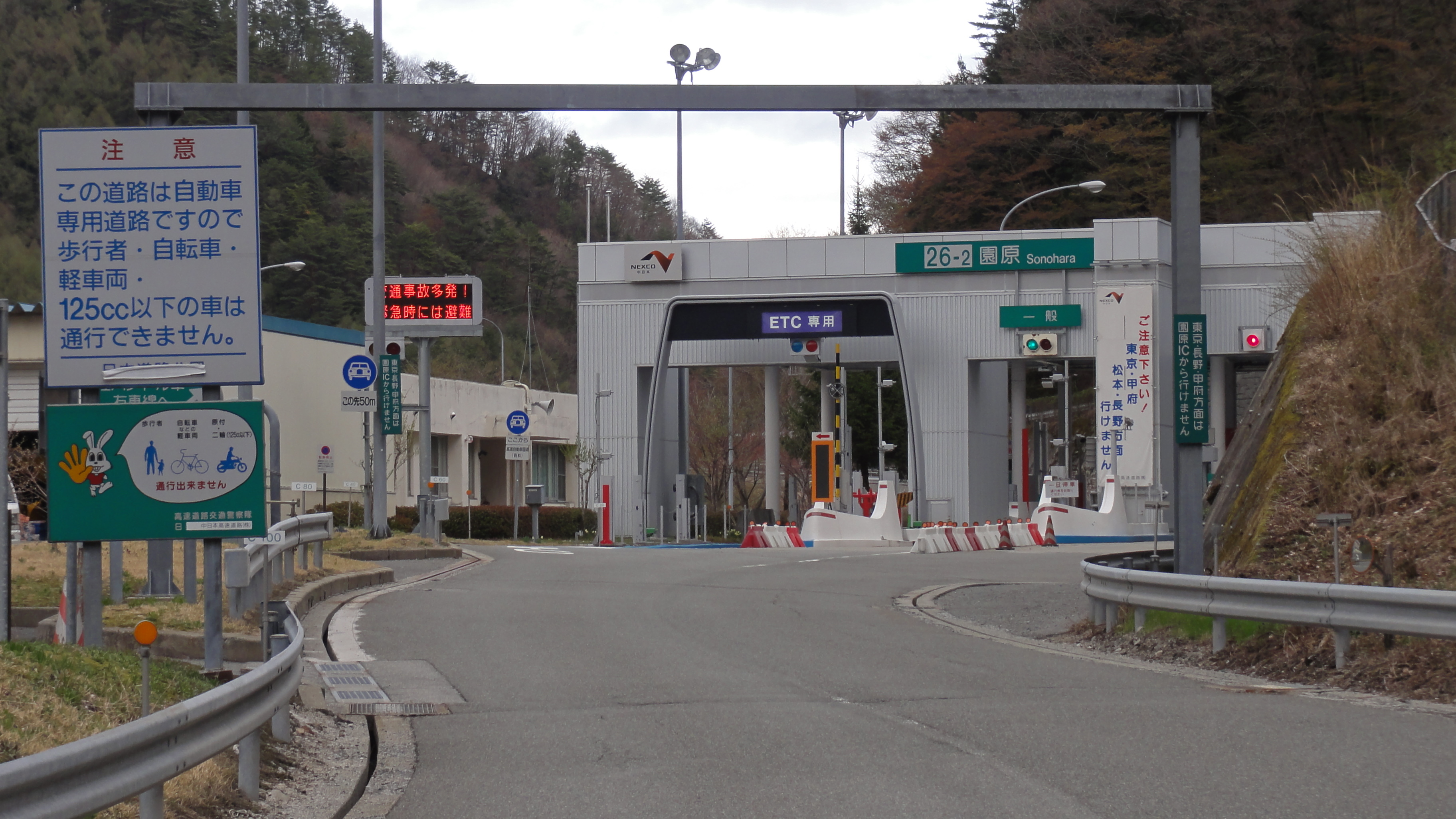 Sonohara Inter Change, Nagano Prefecture, Japan